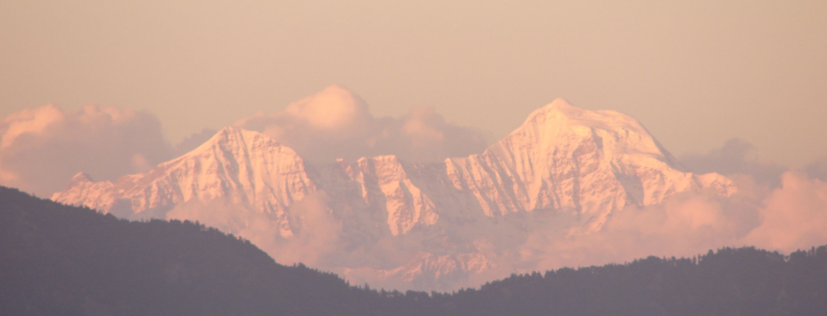 Snow capped Himalayas at dusk. As seen from Mussoorie. We were staying at Avalon Resort, Gun Hill, Mussoorie. At the back of the resort there was a walking trail from where in the evening (just before sunset) I was getting this wonderful sight of the Himalayan peaks bathed in the orangish sunlight!! The view by the way is of Yamunotri (hover over the pic above) and Bandar Poonch (monkey's tail!) (The source of Yamuna River). I hope I have marked the right ones! This was taken quite some time back!